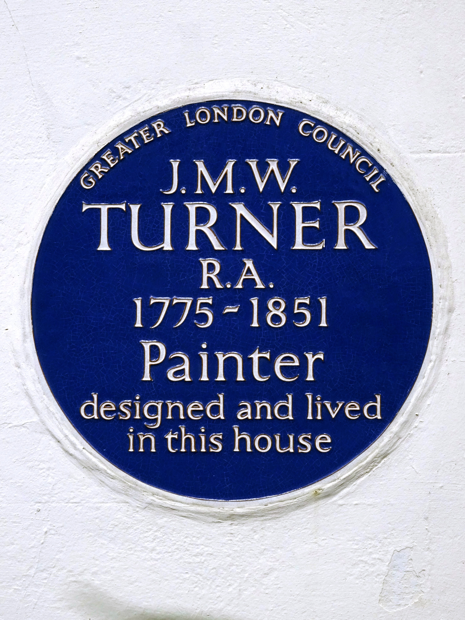 Blue plaque erected in 1977 by Greater London Council at 40 Sandycombe Road, , Twickenham TW1 2LR, London Borough of Richmond upon Thames